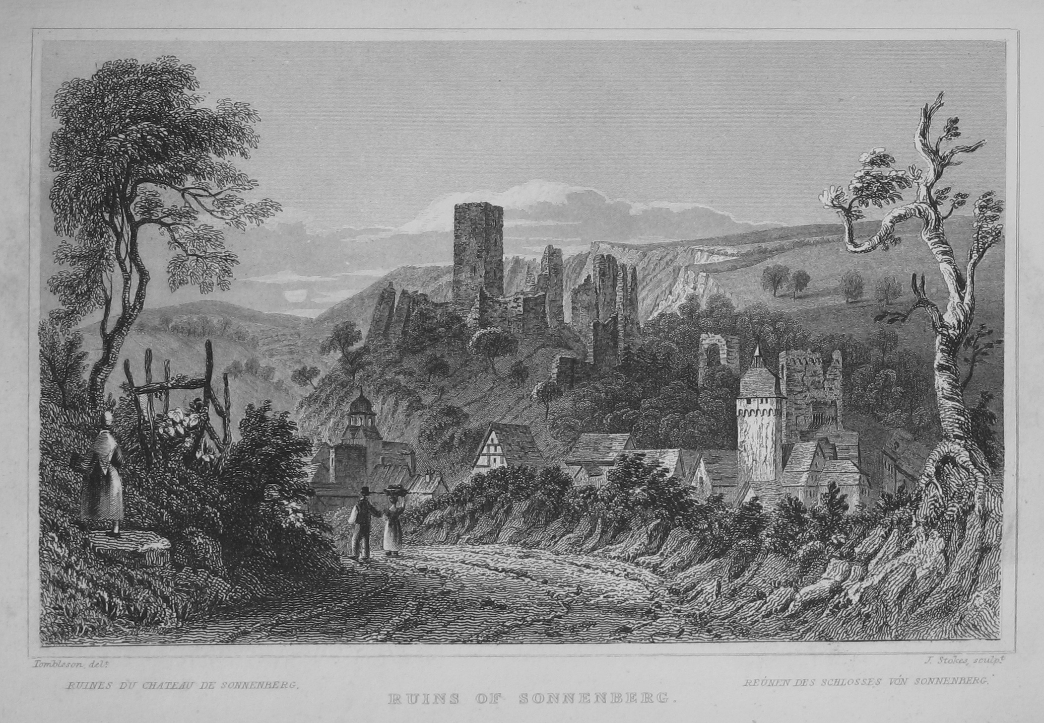 Steel engraving from "Views of the Rhine" by William Tombleson (around 1840): Wiesbaden, Castle of Sonnenberg